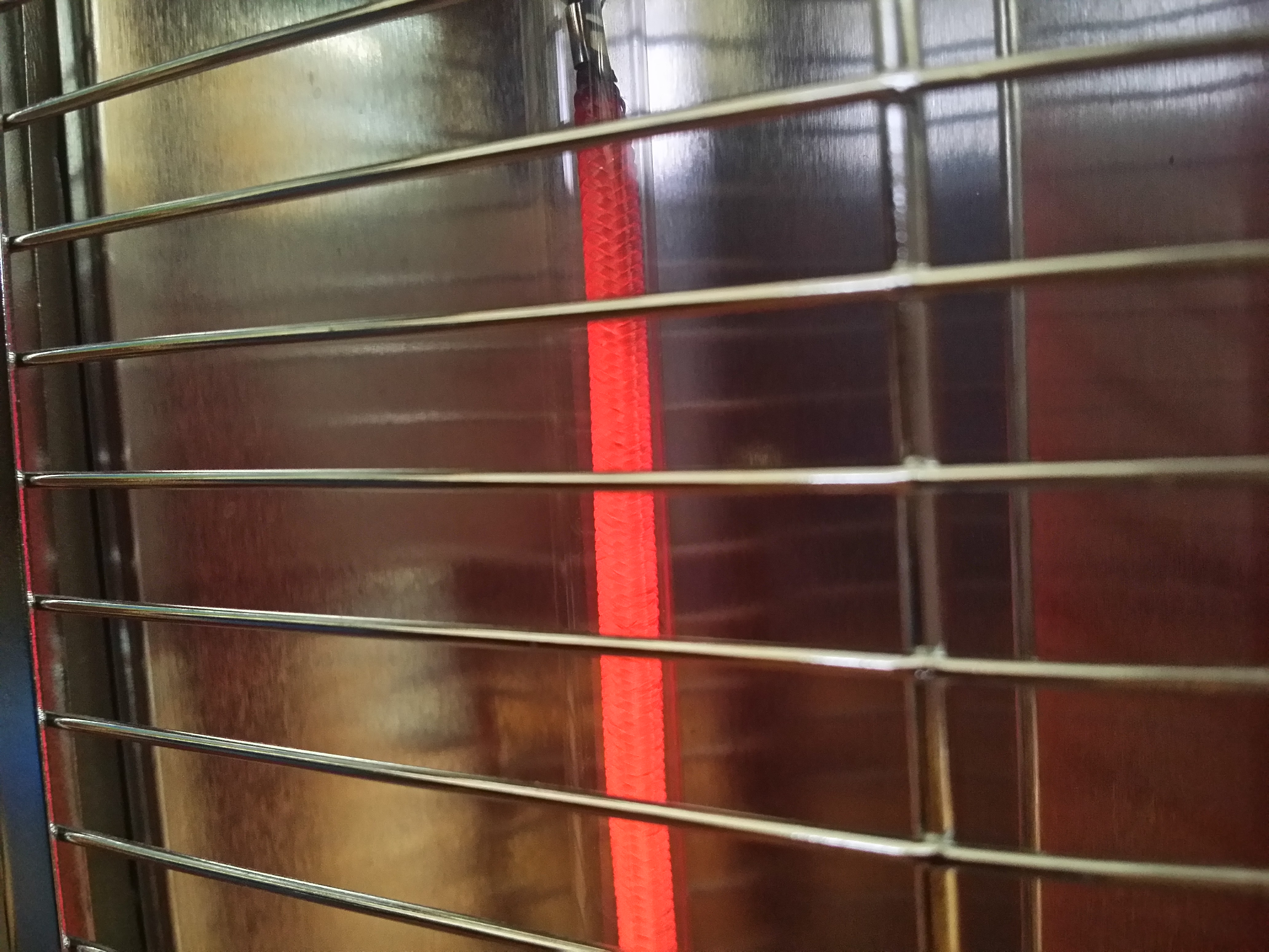 Carbon Fibre Cord in Glass Tube used as heating element in a Carbon-Infrared Heater